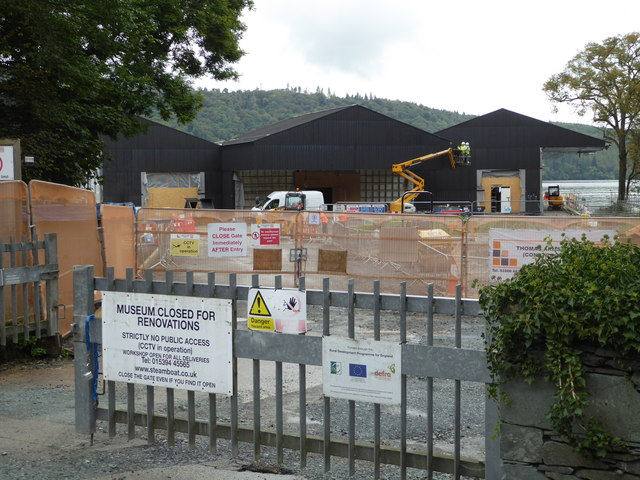 Windermere Jetty